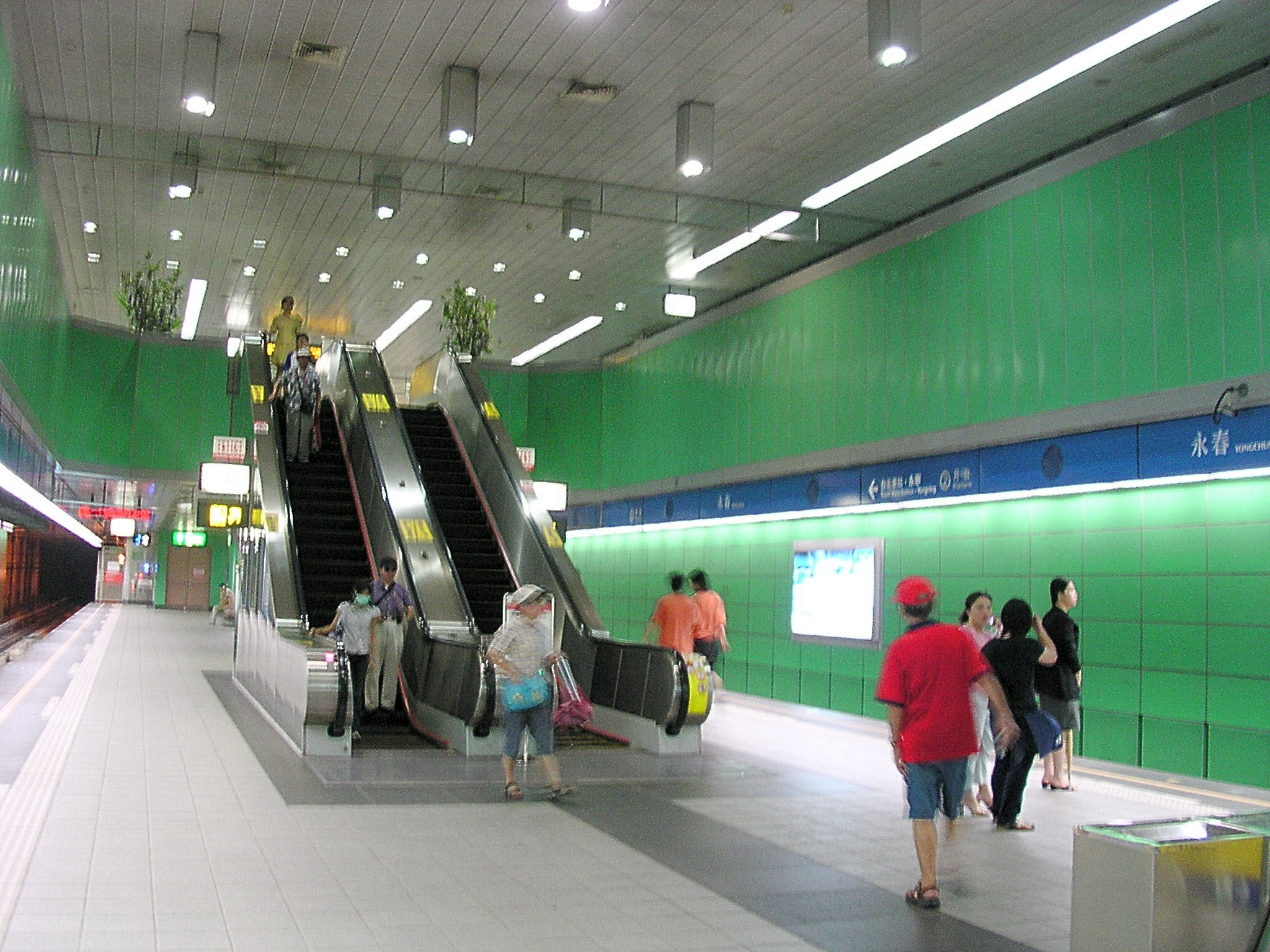 Inside of Taipei MRT Yongchun Station.